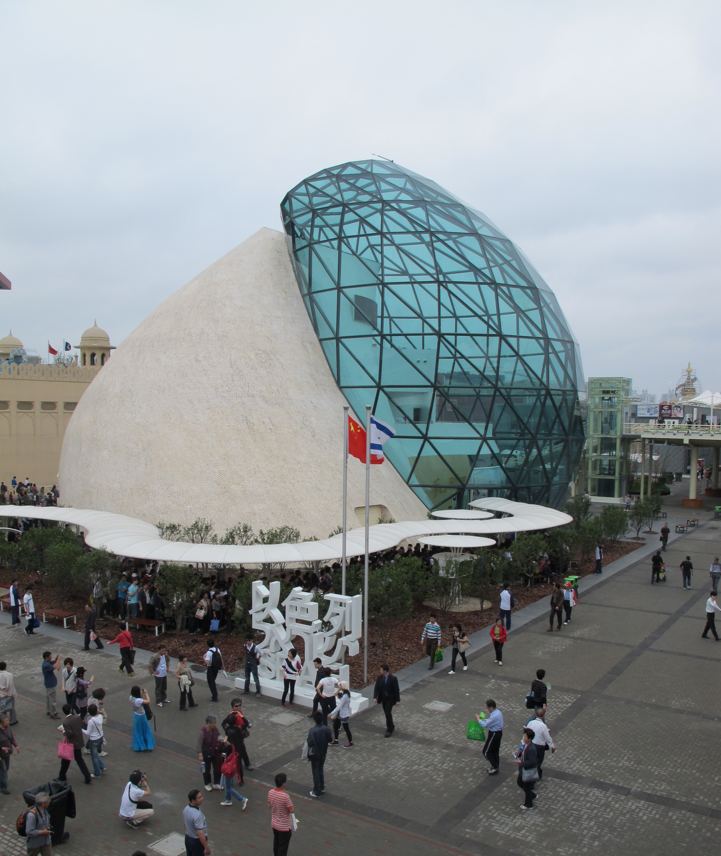 Israel Pavilion in 2010 Expo, Shanghai.